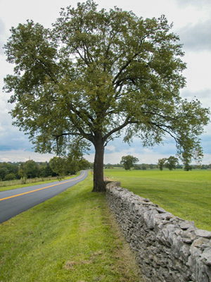 Rock fence in central Kentucky Image copyleft: Image taken by me, released under GFDL Pollinator 04:58, Aug 23, 2004 (UTC)